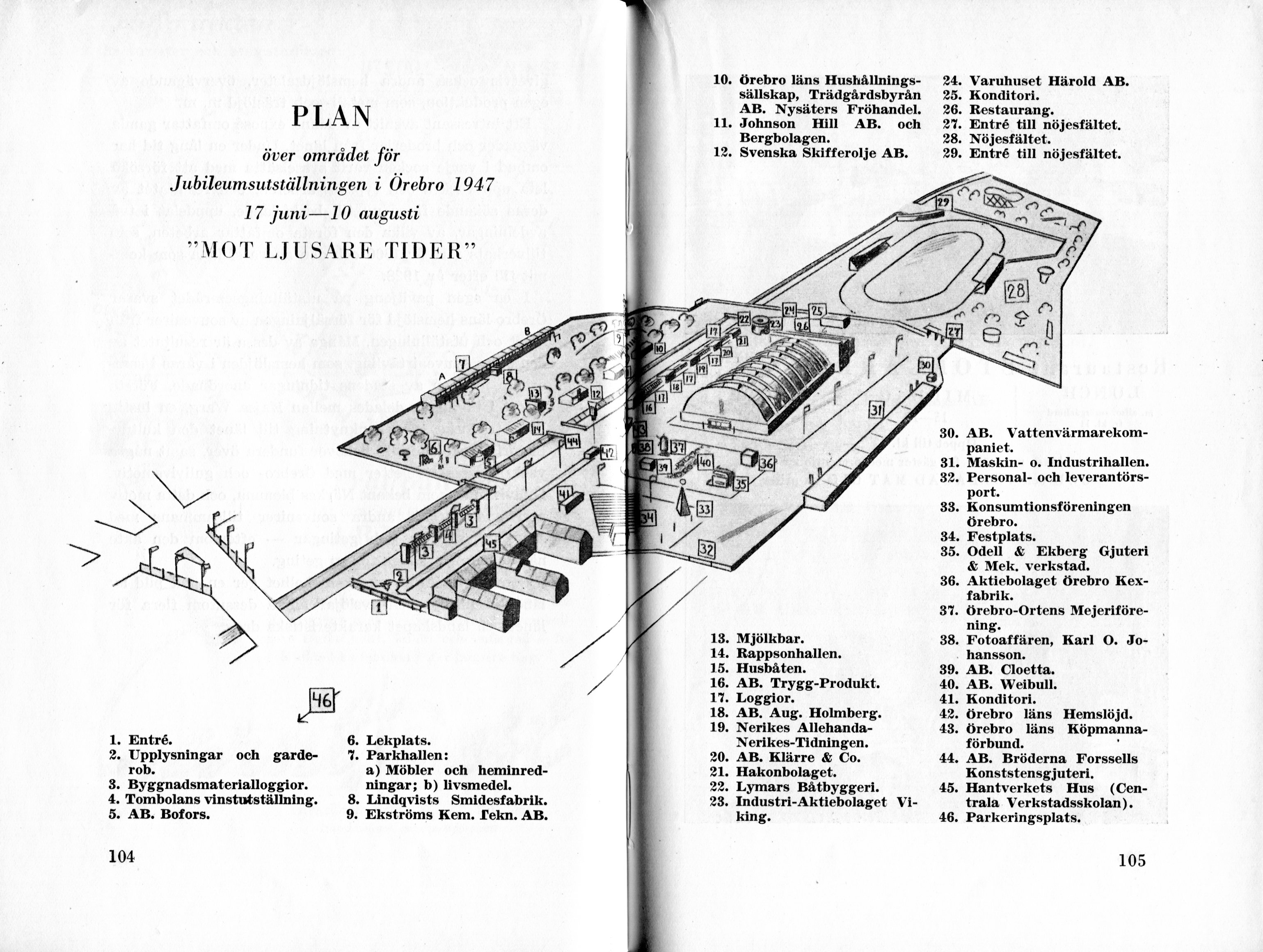 The fair in Örebro 1947, map